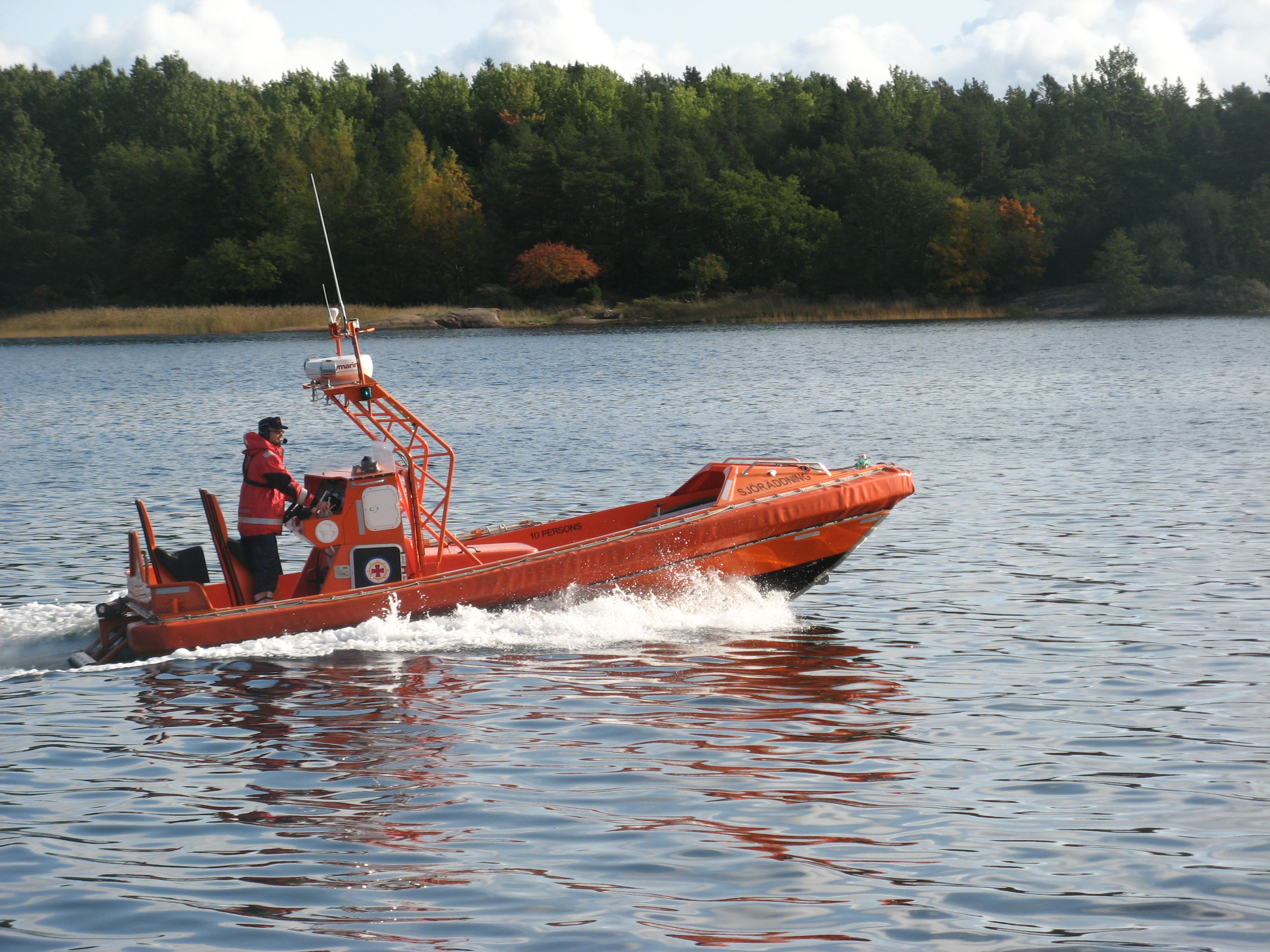 The SAR vessel Stormskär of the sea rescue society of Åland.